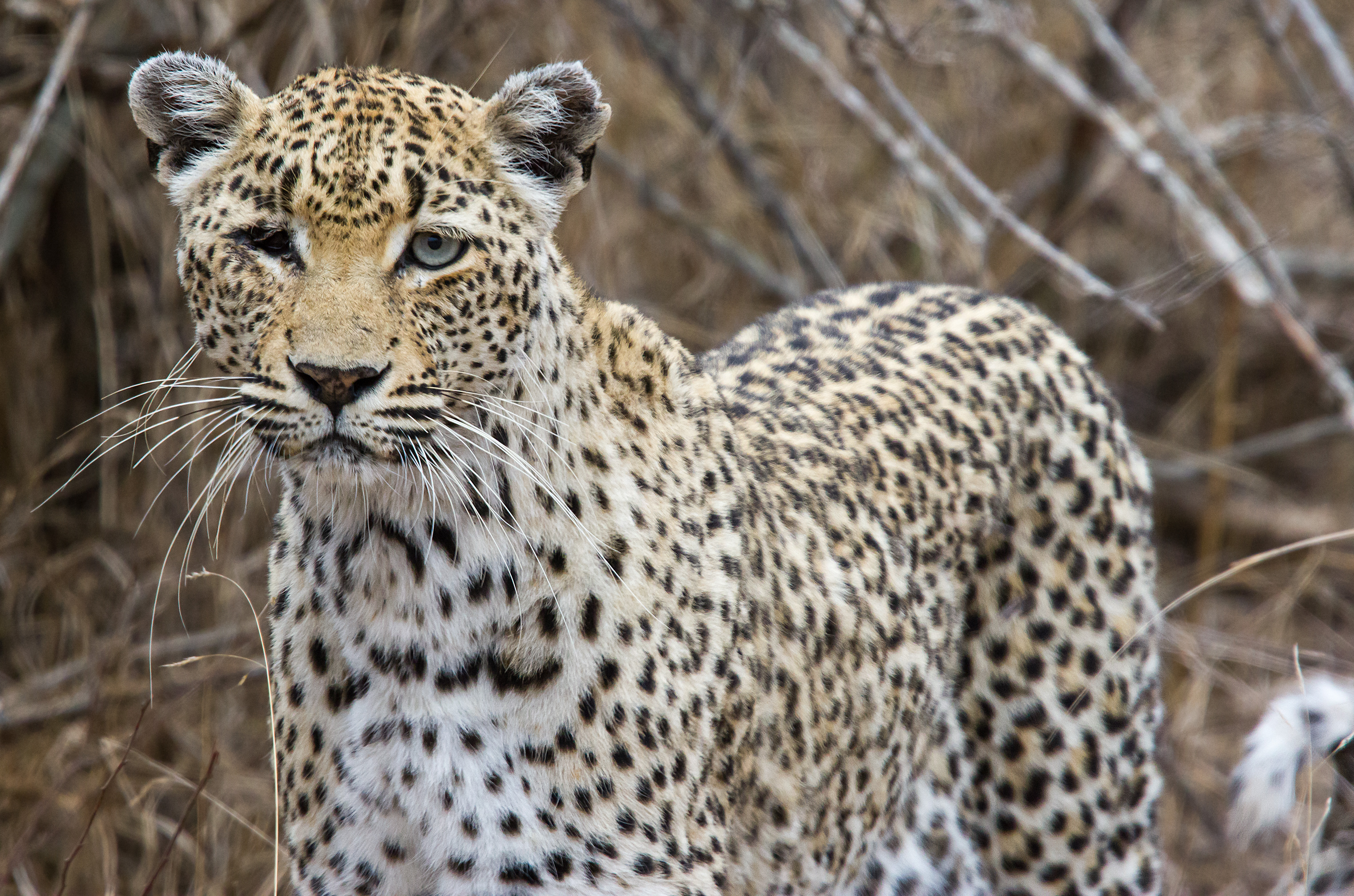 A one-eyed African leopard in Kruger National Park, South Africa.